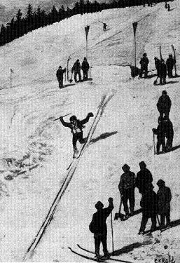 Drawing by the Norwegian painter Christian Krohg from the first Husebyrennet in 1879.